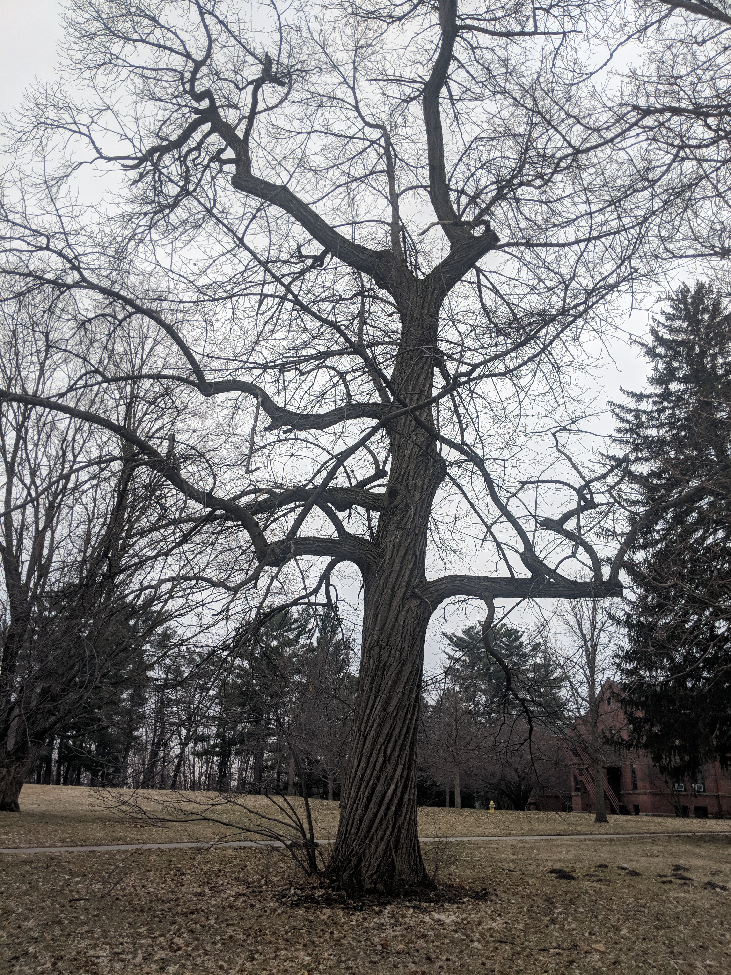 Lone American Chestnut (Castanea dentata) specimen in late winter in Iowa.